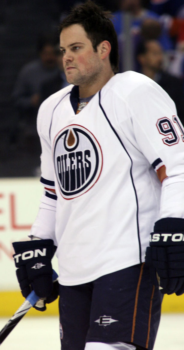 Hockey player Mike Comrie, prior to a game against the LA Kings